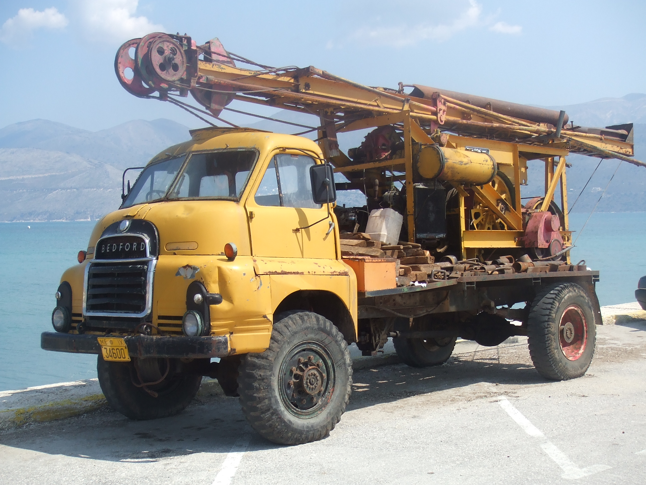 Bedford Truck, 4 Wheel Drive, with a Ruxton-Bucyrus hole, or well, Drilling Rig. Photo made by Christos Vittoratos 2007 in Lixouri/Greece. A Bedford truck with a well drilling rig bed, with the drilling boom in transport mode, being laid down on top of the frame, with the drilling rig powered by the internal combustion engine (note the radiator and alternator) mounted in the middle of the rig bed